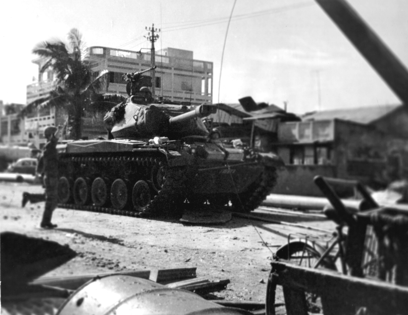 M41 OF SOUTH VIETNAMESE ARMY ADVANCES ON ENEMY POSITIONS IN SAIGON, MAY 1960.